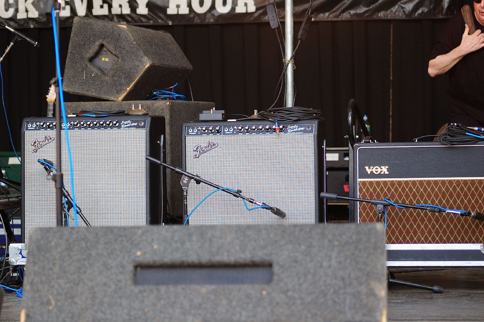 The Animals' Amps @ 2008 Daffodil Festival Fender Super Reverb (×2) VOX AC30